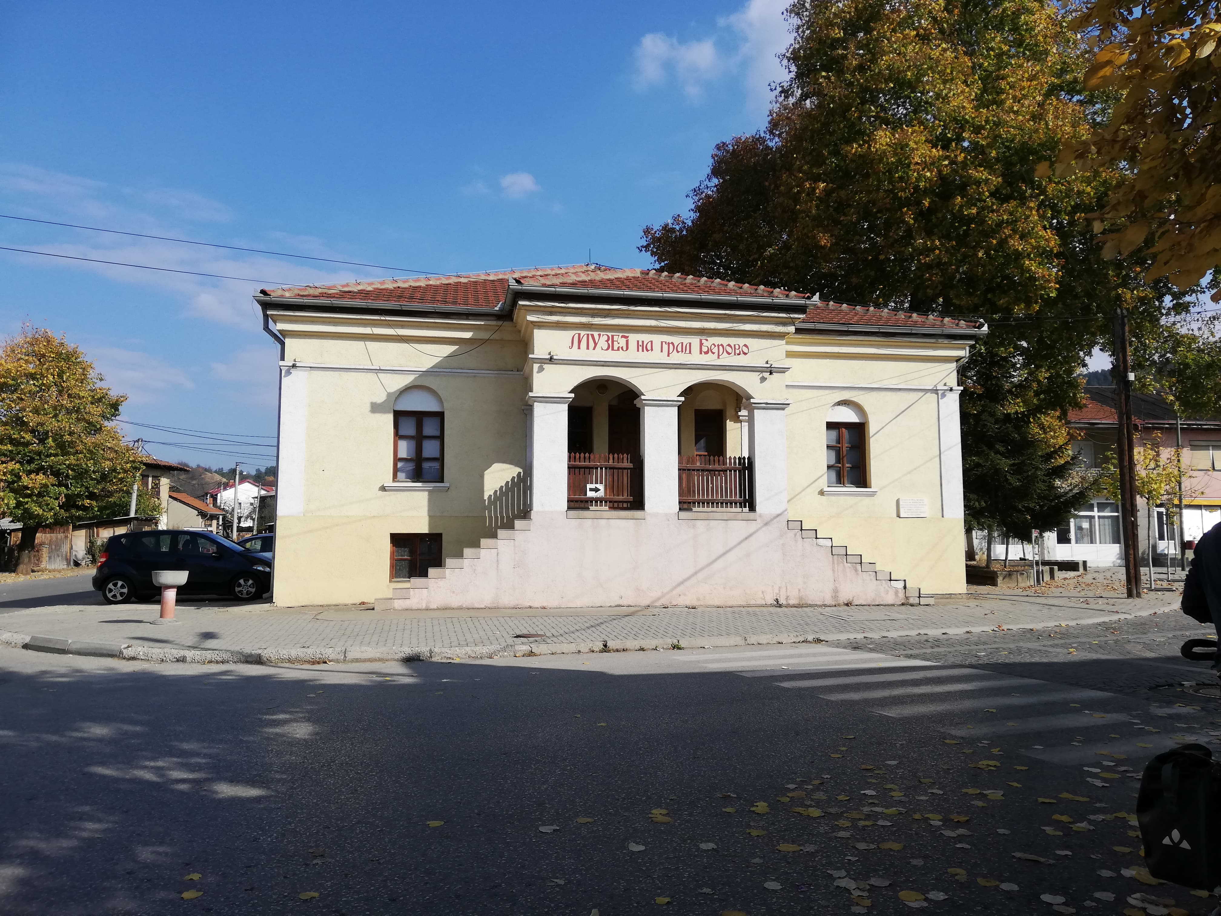 Museum of Berovo